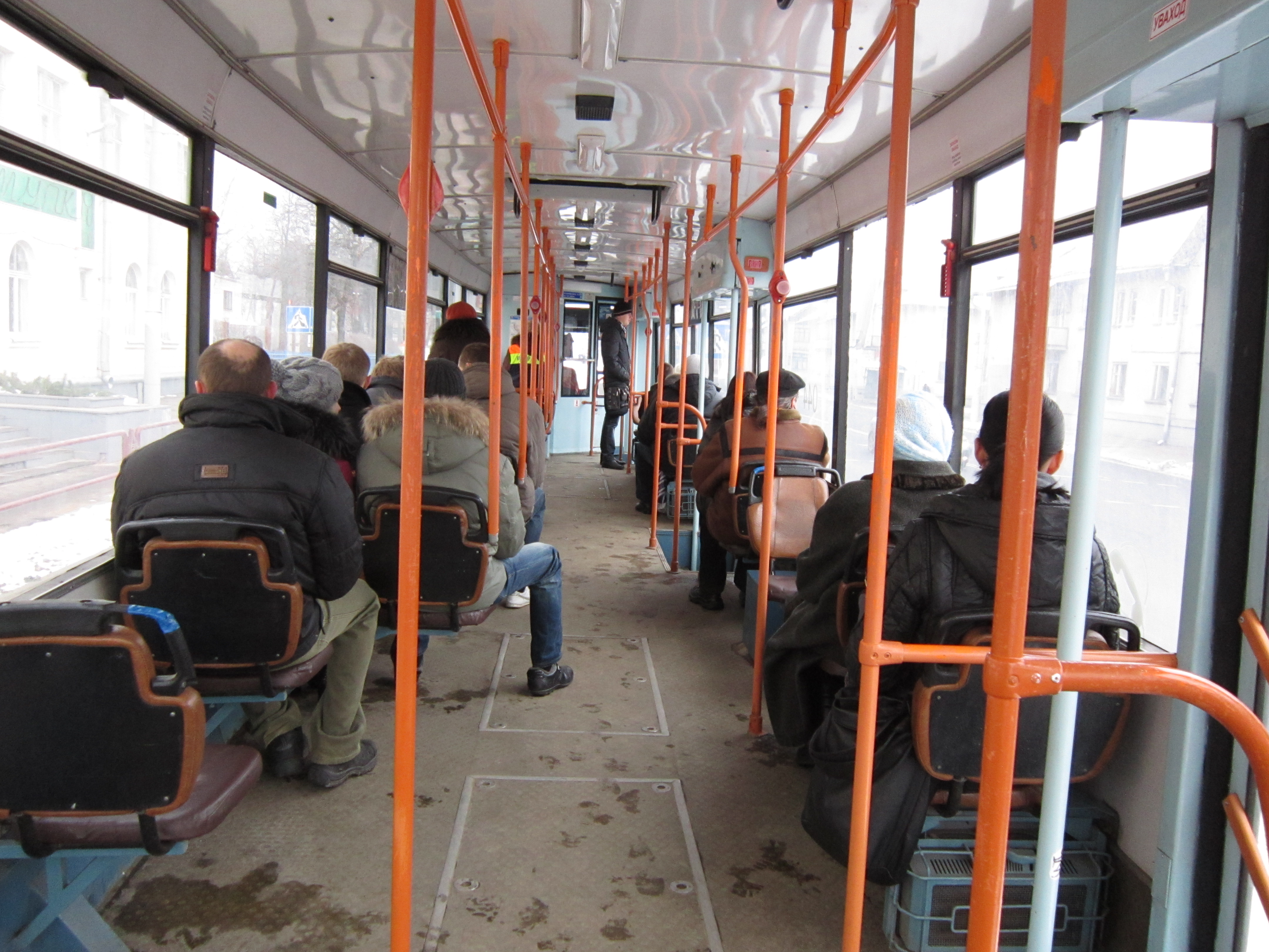 Inside AKSM-60102 tram. Minsk, Belarus.